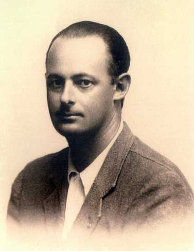 The portrait of Italian architect Gherardo Bosio.